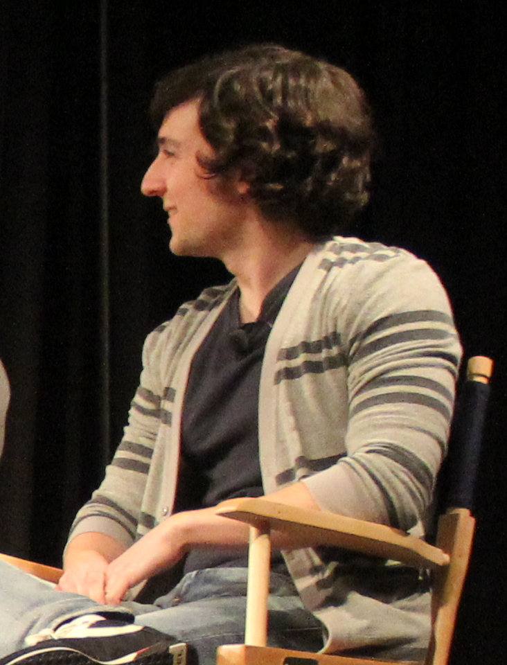 Josh Brener at "SILICON VALLEY: Making the World a Better Place", a panel at SXSW 2016 starring the cast and creators of Silicon Valley (TV series).